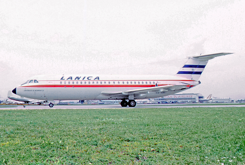 BAC 1-11 series412 AN-BBI of LANICA at Miami International in 1970